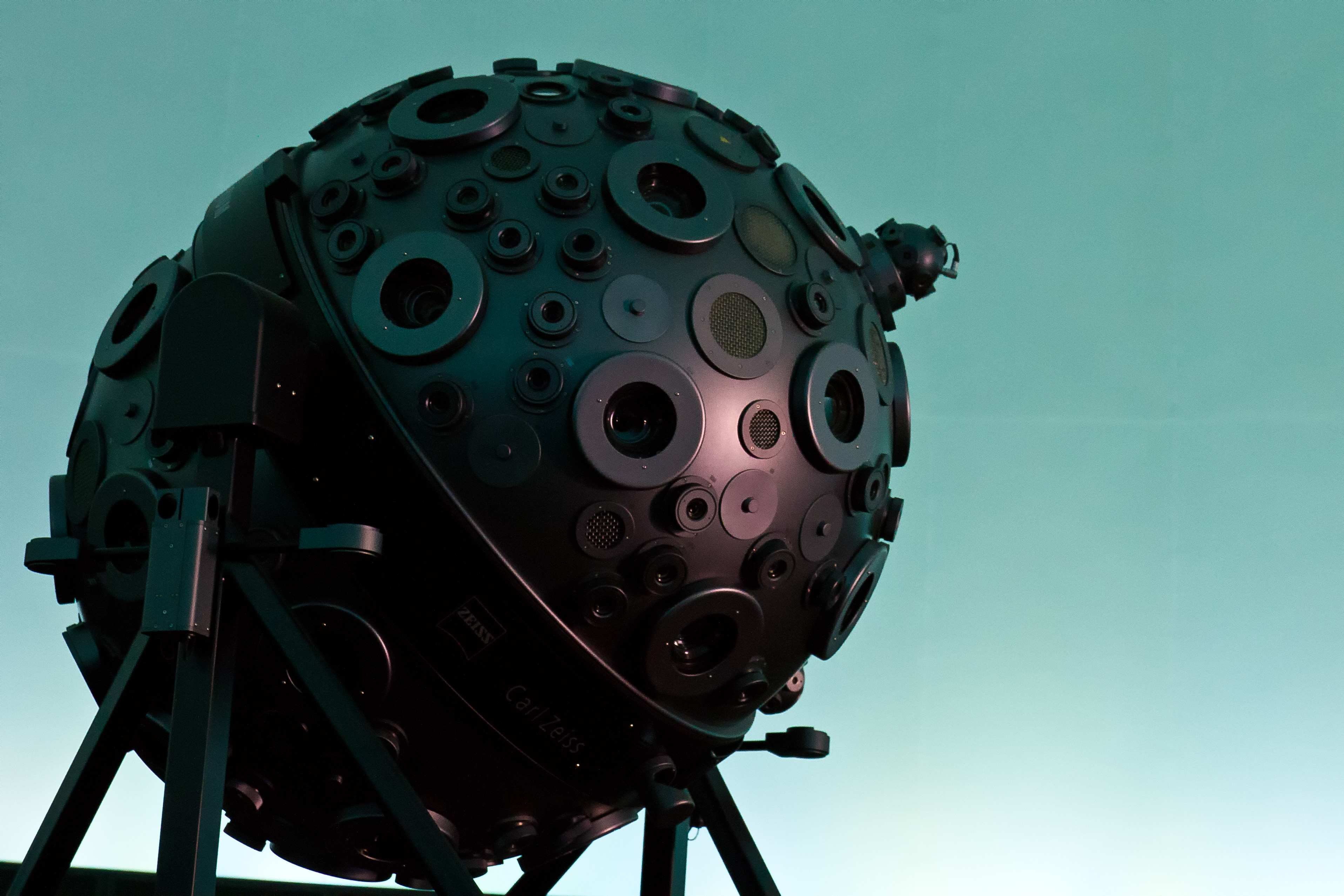 The Carl Zeiss MkIX Universarium is the world's most advanced star projector. This example is installed at the Samuel Oschin Planetarium of the Griffith Observatory in Los Angeles.